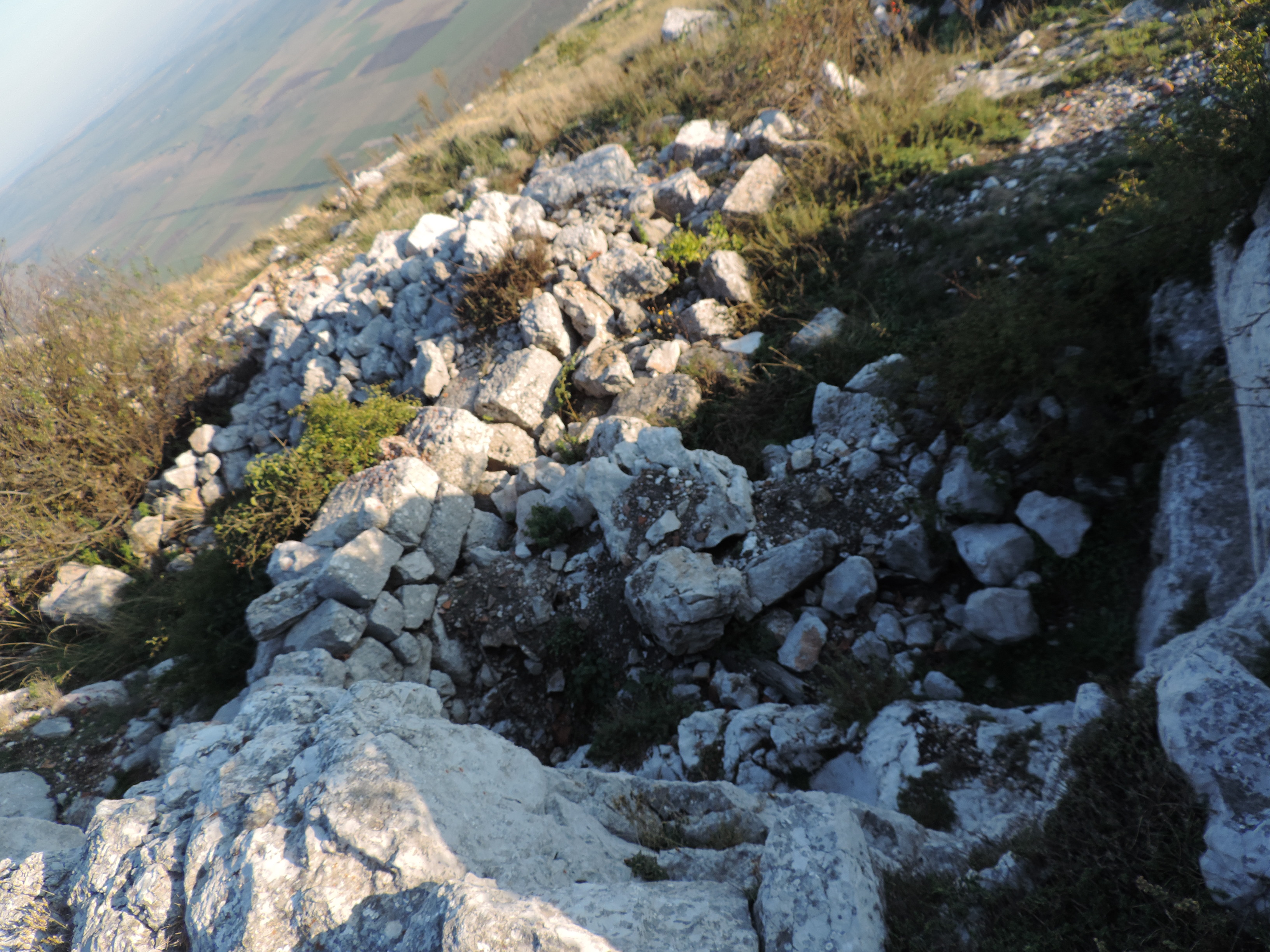 The ruins of the Dragoman Monastery, Petrov Peak of Chepan mountain